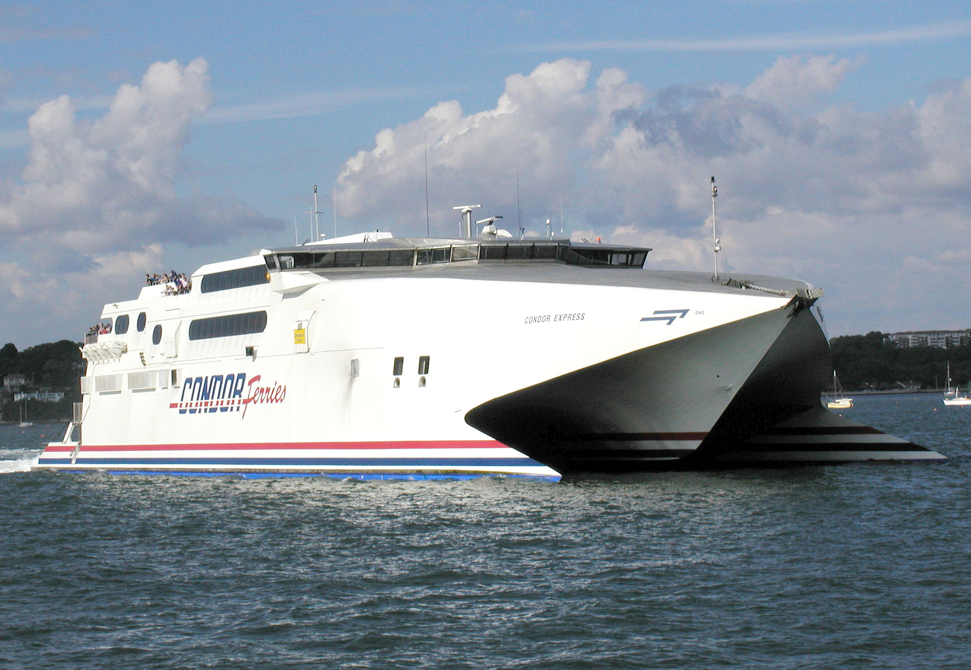 Condor Ferries Condor Express catamaran car ferry passes through Poole Harbour. The ship carries 750 passengers and 180 cars, and operates between the English South Coast, France and the Channel Islands. IMO Number: 9135896 MMSI Number: 311369000 Callsign: C6SK5 Length: 86 m Beam: 26 m Taken by Adrian Pingstone in July 2002 and released to the public domain. This work has been released into the public domain by its author, Arpingstone. This applies worldwide. In some countries this may not be legally possible; if so: Arpingstone grants anyone the right to use this work for any purpose, without any conditions, unless such conditions are required by law.